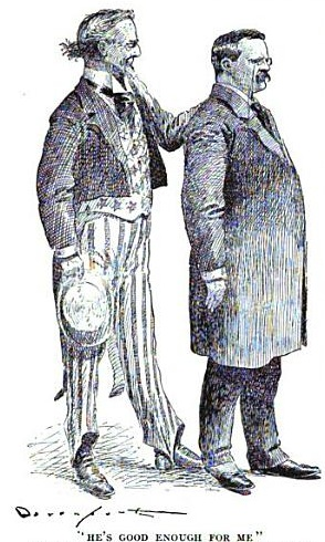 Political cartoon, "He's good enough for me" by Homer Davenport